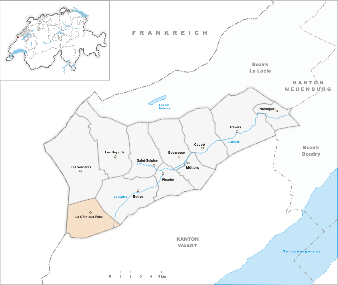 Municipality La Côte-aux-Fées